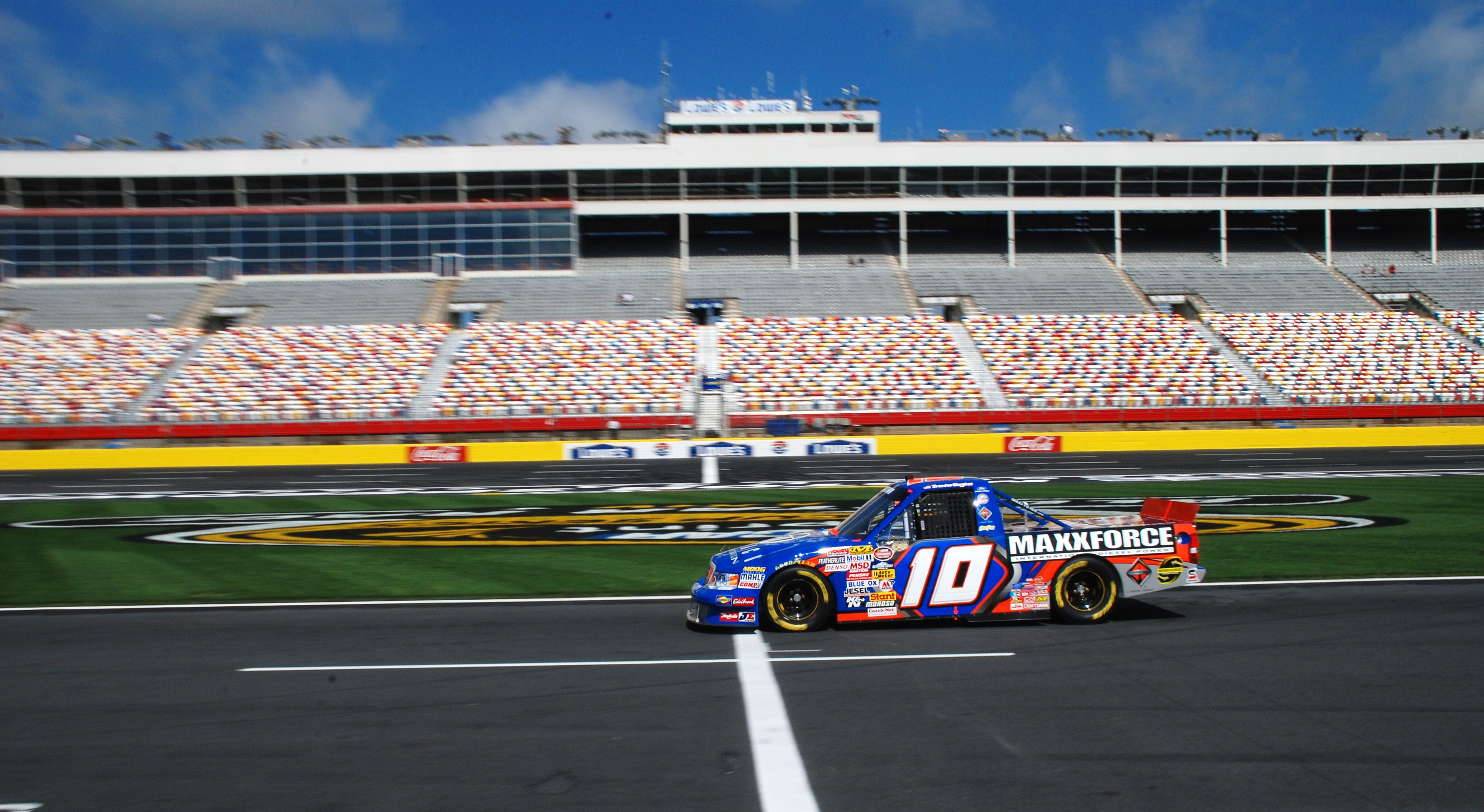 Trucks at the All Star weekend, Lowes Motor Speedway.